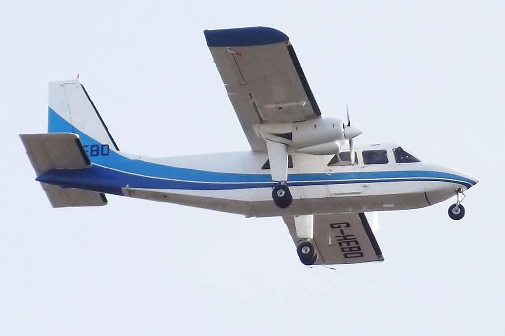 BN-2 Islander G-HEBO on short finals for a go-around at Glasgow Airport